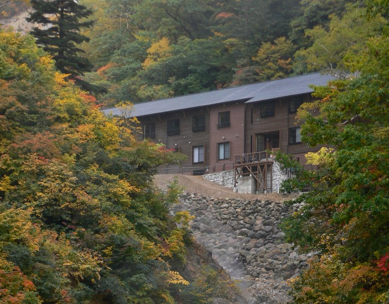 Ubayu Hot Spring, Yamagata, Japan.